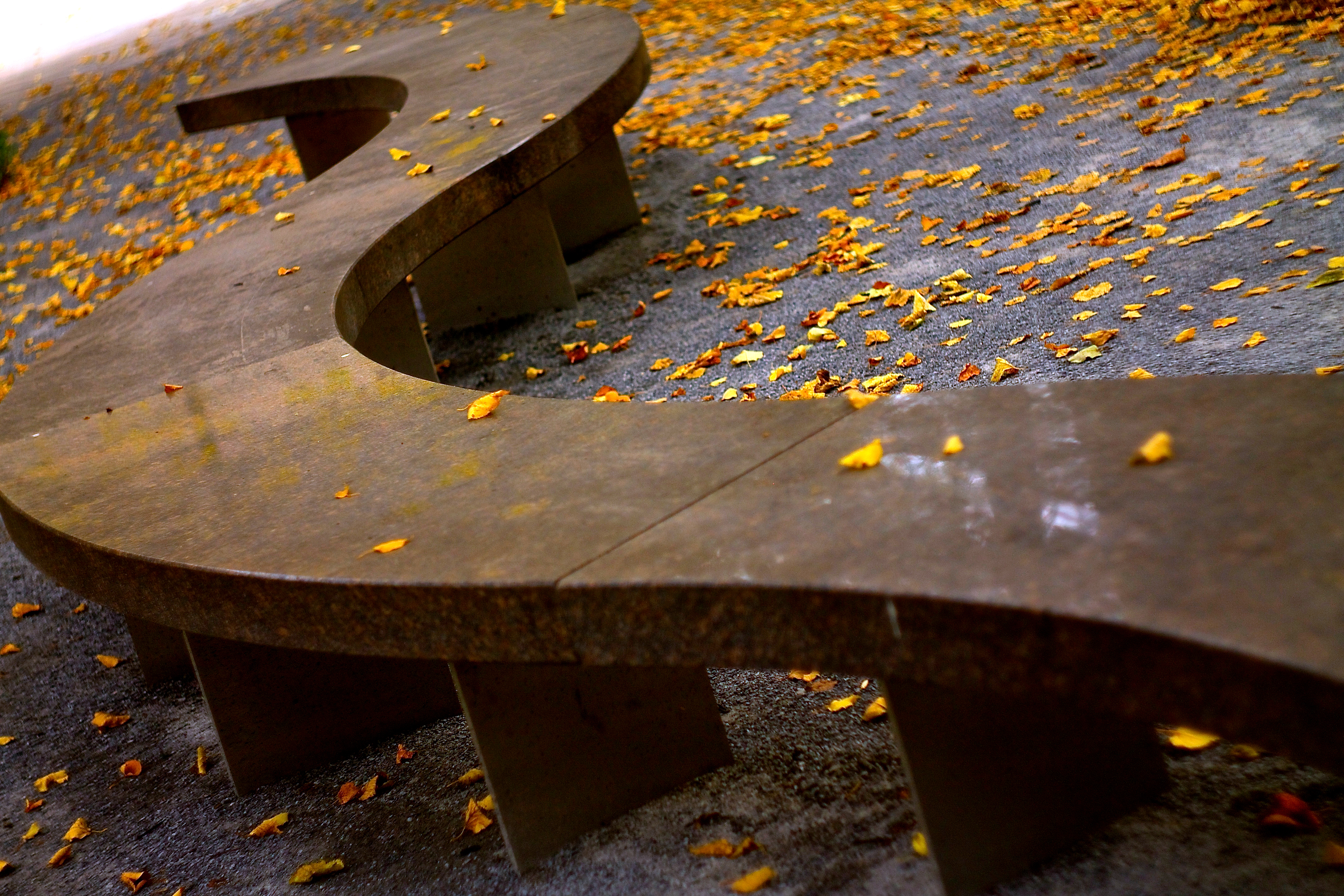 Now that's a bench.